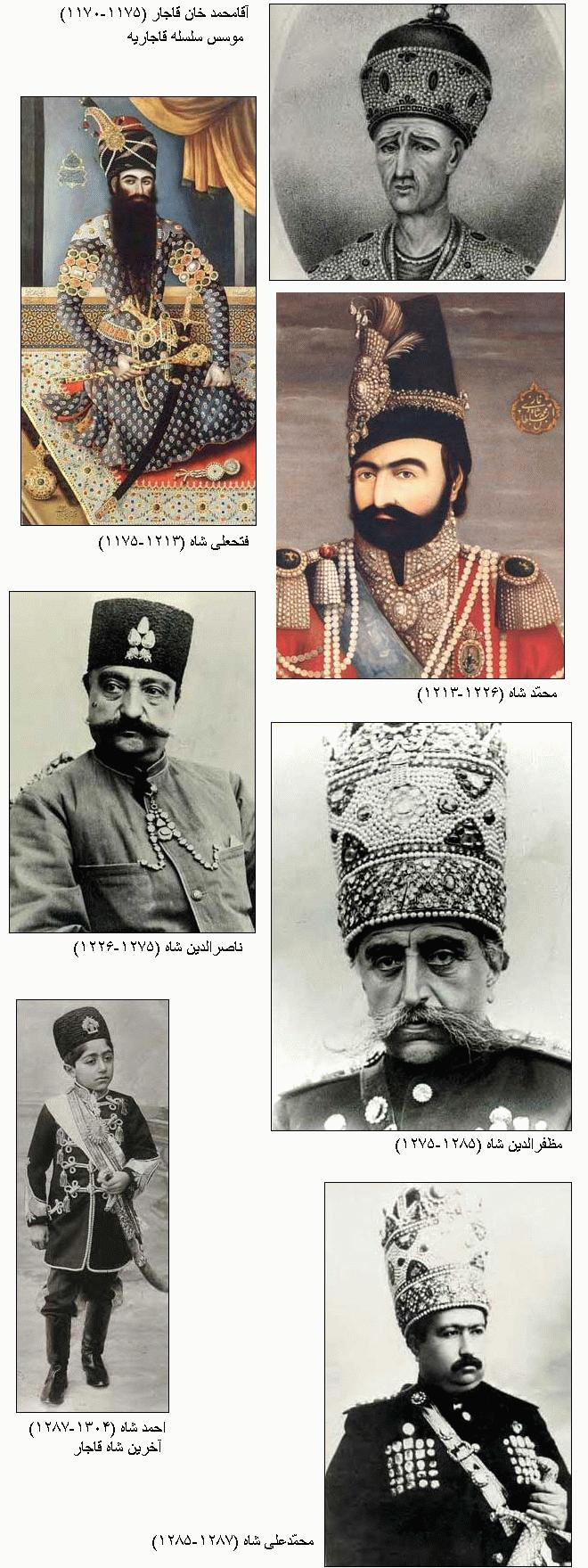 Qajar Kings (in persian)